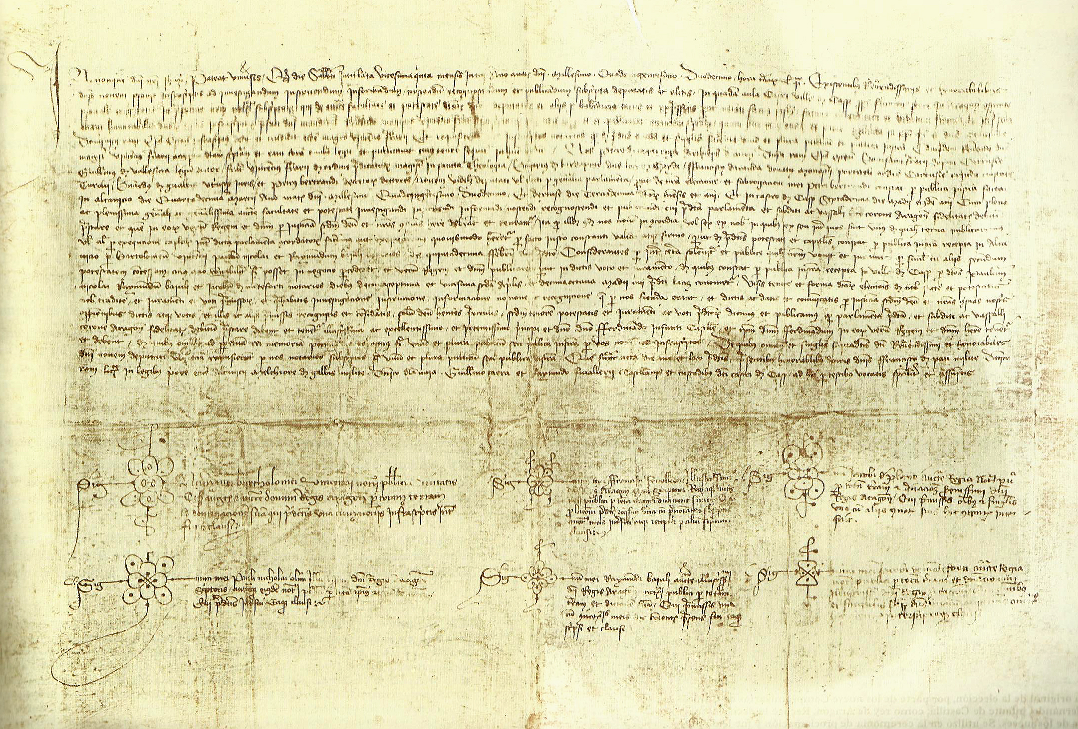 Original act unanimous election of Fernando de Antequera as king of Aragon by the delegates of Caspe. See Carlos Laliena Corbera and Cristina Monterde Albiac, En el sexto centenario de la Concordia de Alcañiz y del Compromiso de Caspe, coord. by José Ángel Sesma Muñoz, Zaragoza, Gobierno de Aragón, 2012. Paleographic description from p. 42.